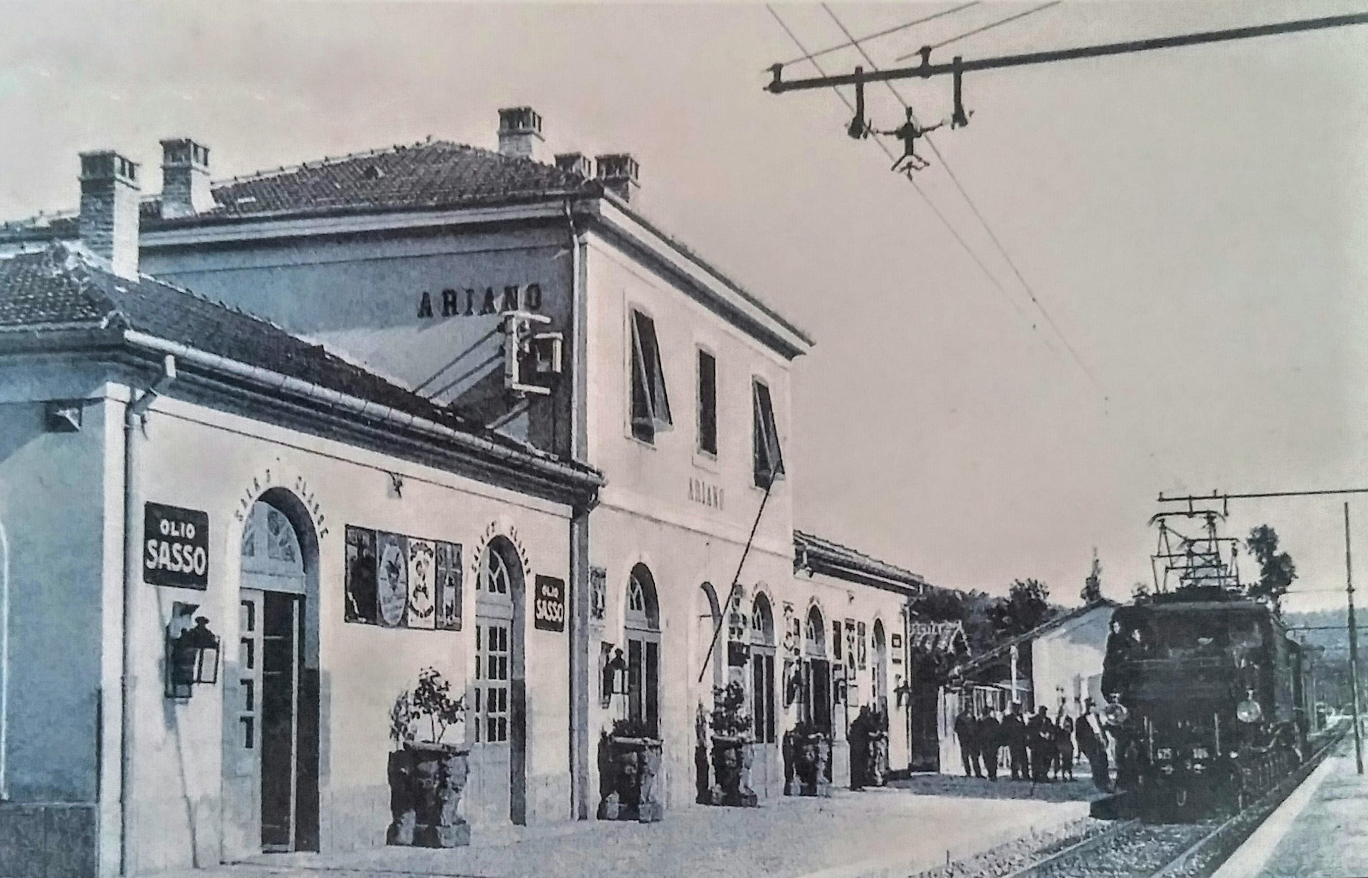 The newly electrified Ariano (now Ariano Irpino) train station, Italy